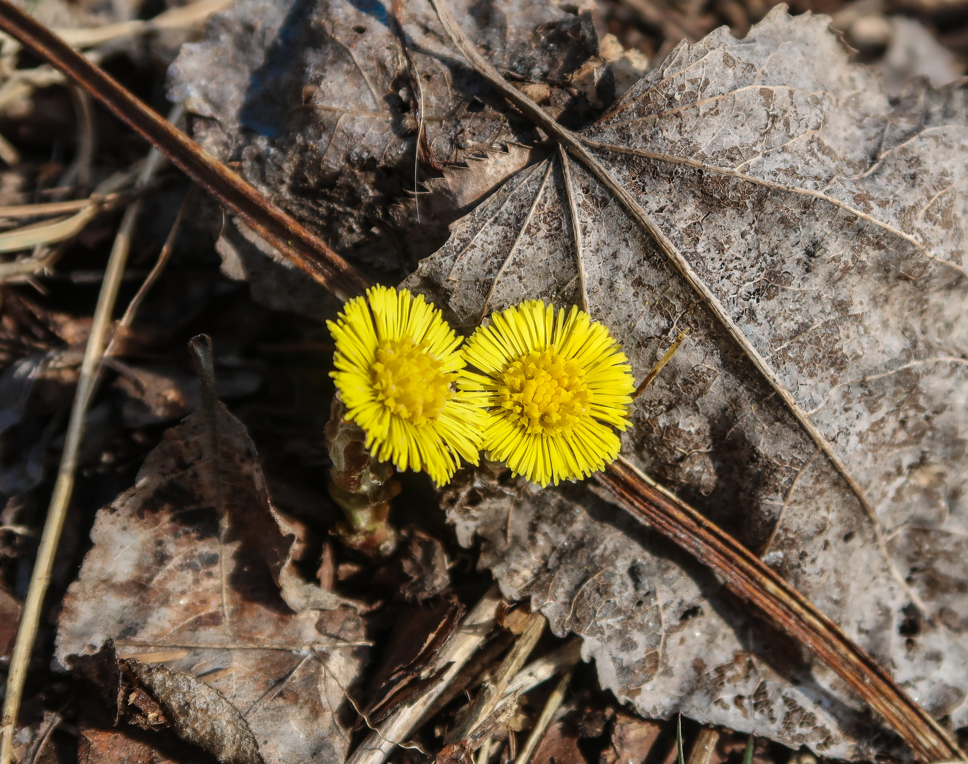 Tussilago farfara flowers are usually the first spring flowers in Finnish nature.